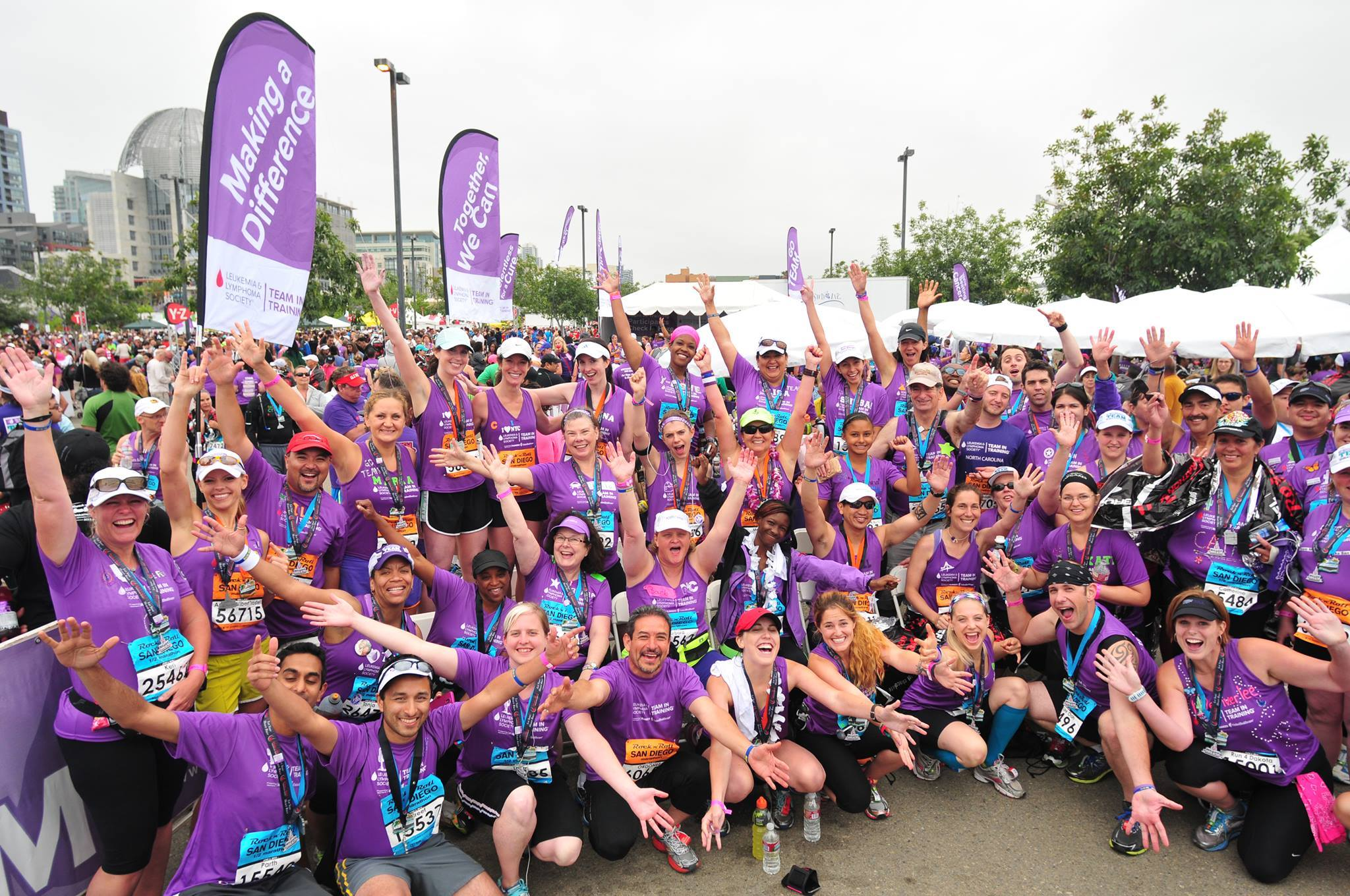 Team In Training (TNT) is the flagship fundraising program for The Leukemia & Lymphoma Society (LLS) and the only endurance sports training program for charity that raises money for blood cancer research.